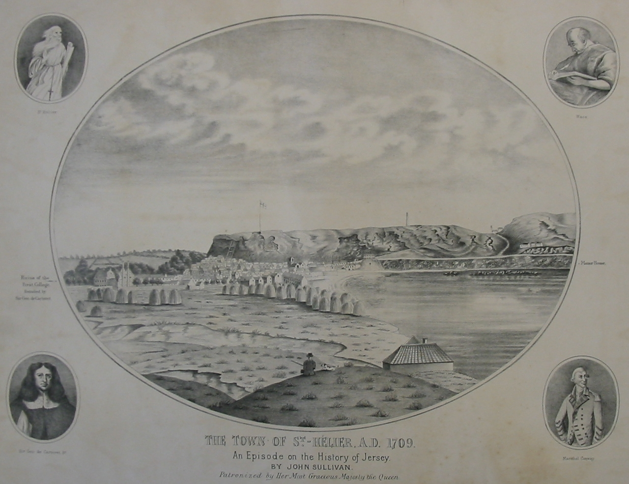 Print of view of Saint Helier, Jersey, as in 1709, with portrait vignettes of Saint Helier, Wace, Sir George de Carteret, Marshal Conway. Print made by Jean Sullivan (1813-1899), artist, author and antiquarian.